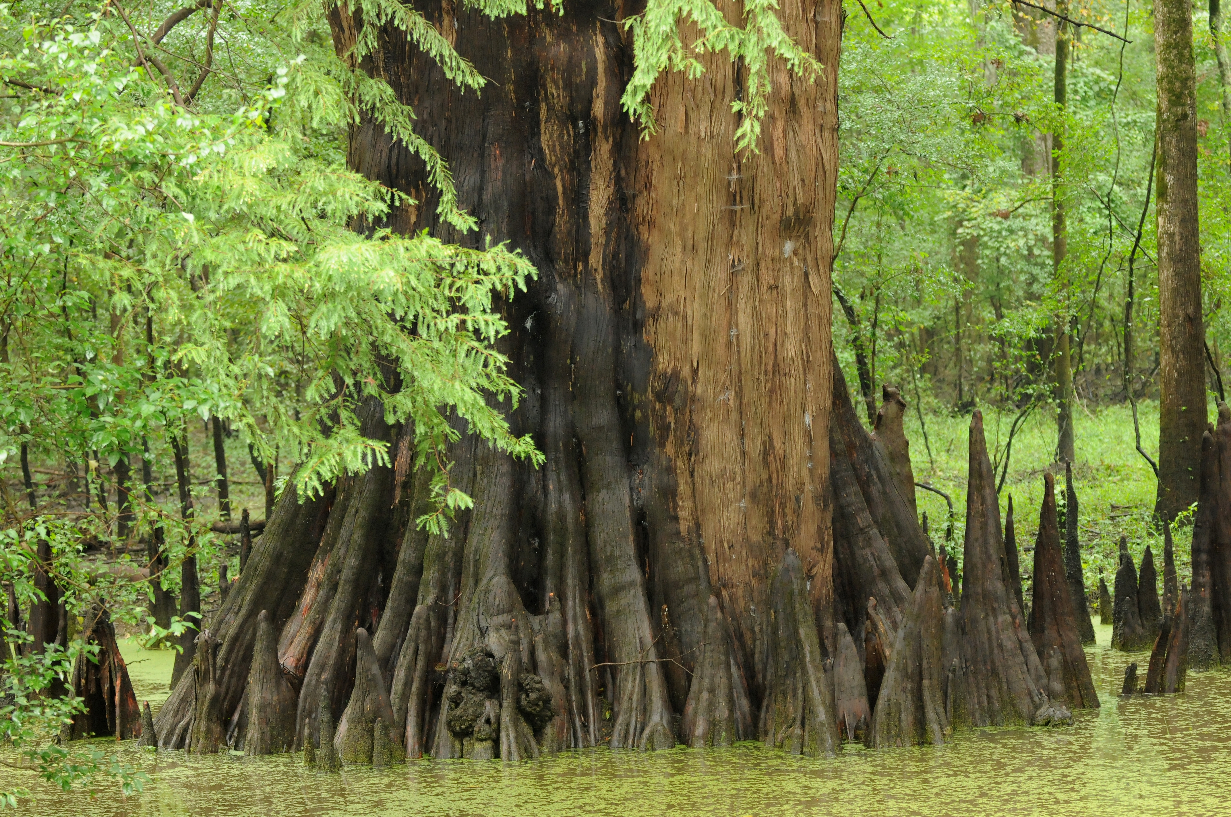 White River National Wildlife Refuge. Photographer: Garry Tucker, USFWS.